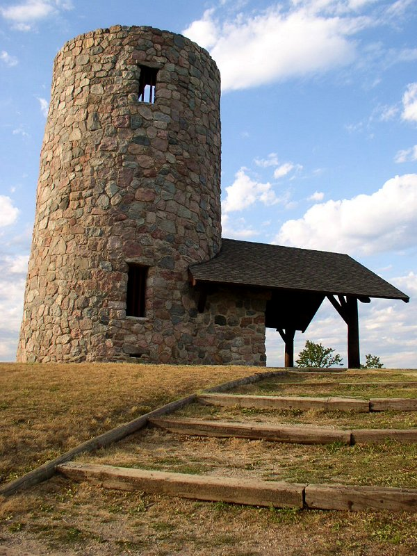 Observation tower built by the Civilian Conservation Corps on the second-highest point in Iowa, Pilot Knob State Park, Iowa, USA